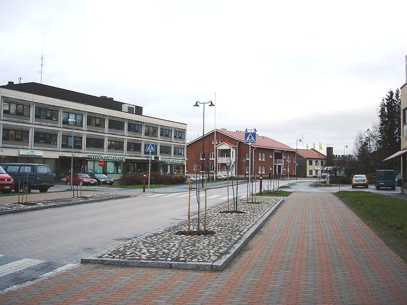 The town center of Piikkiö.